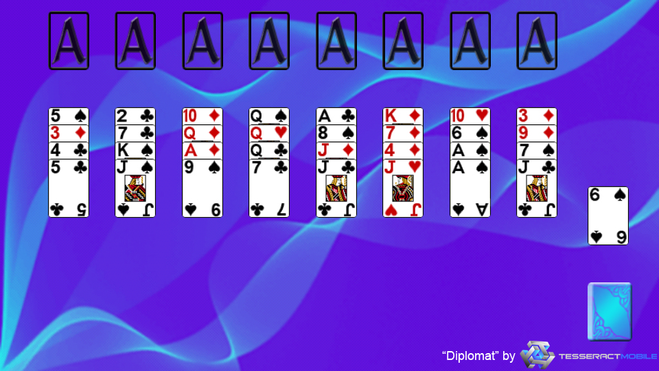 This image is a screenshot of the solitaire game "Diplomat". More information about this game or this photo can be found on this website